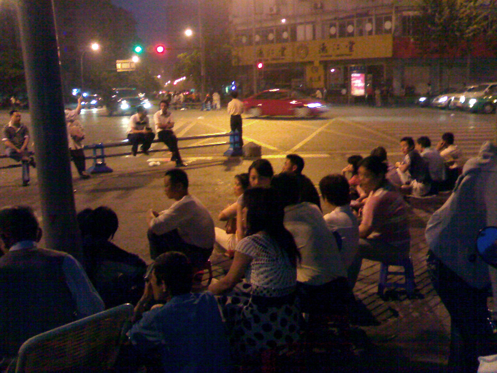 After the Sichuan Earthquake, residents of Chengdu worried about potential aftershocks and gathered in the street to avoid staying in buildings